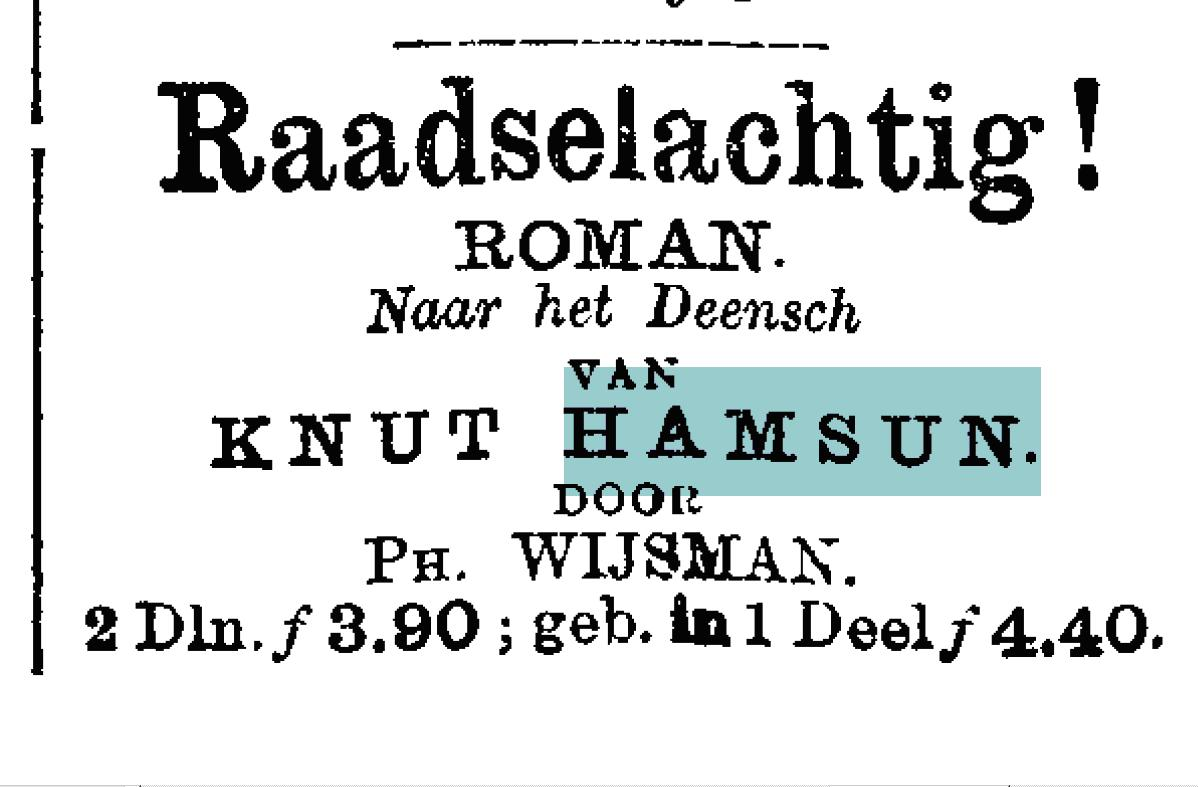 Advertisement for book of Knut Hamsun in 12-12-1894 newspaper